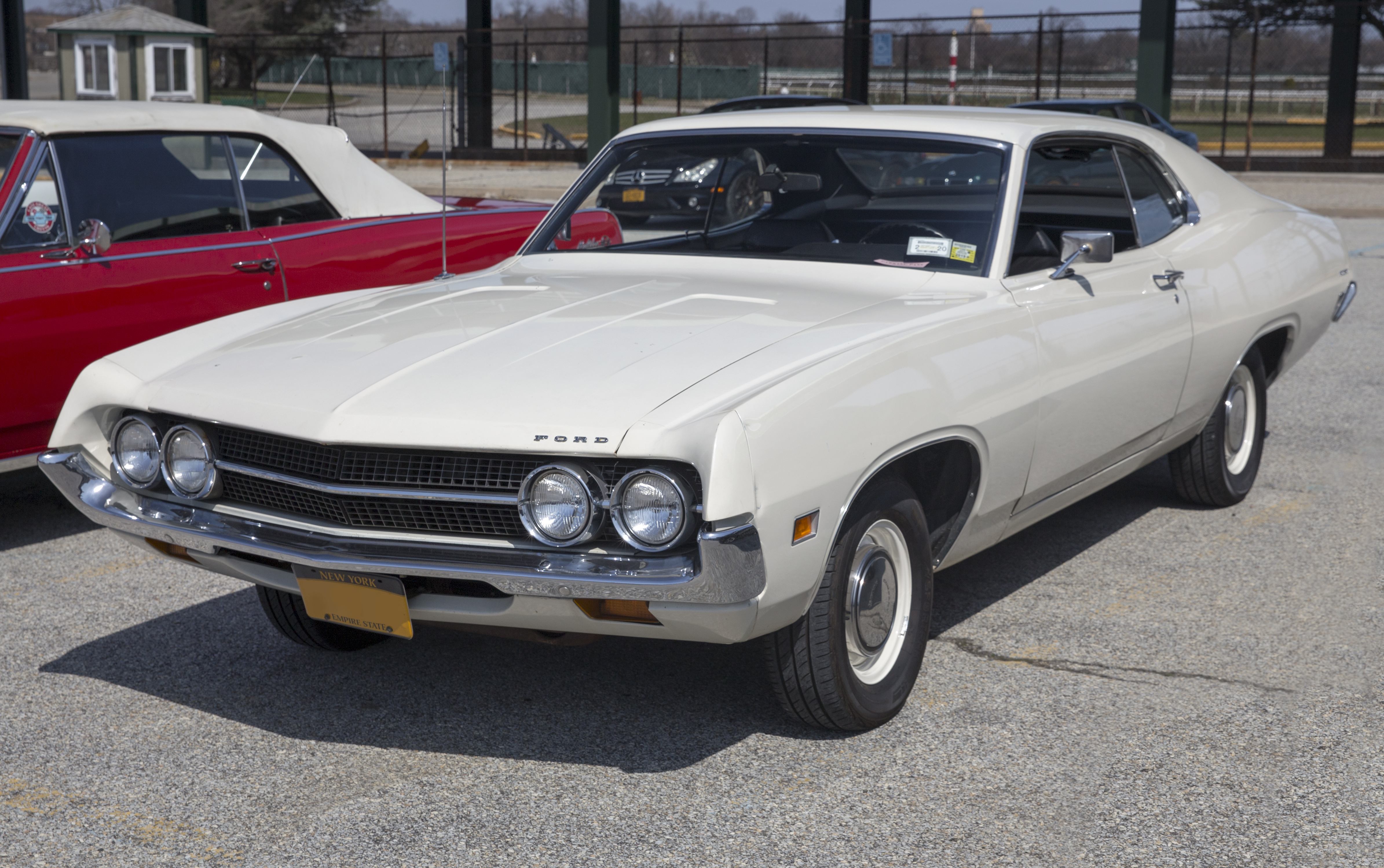 A 1971 Ford Torino 2-door Hardtop Coupe at the Belmont Race Track. This one has a two-barrel 302ci V8 with 210hp Gross and a 9.0:1 compression ratio coupled to a three-on-the-tree; assembled in Atlanta, GA. Sold new to Texas, hence the amazing original condition.